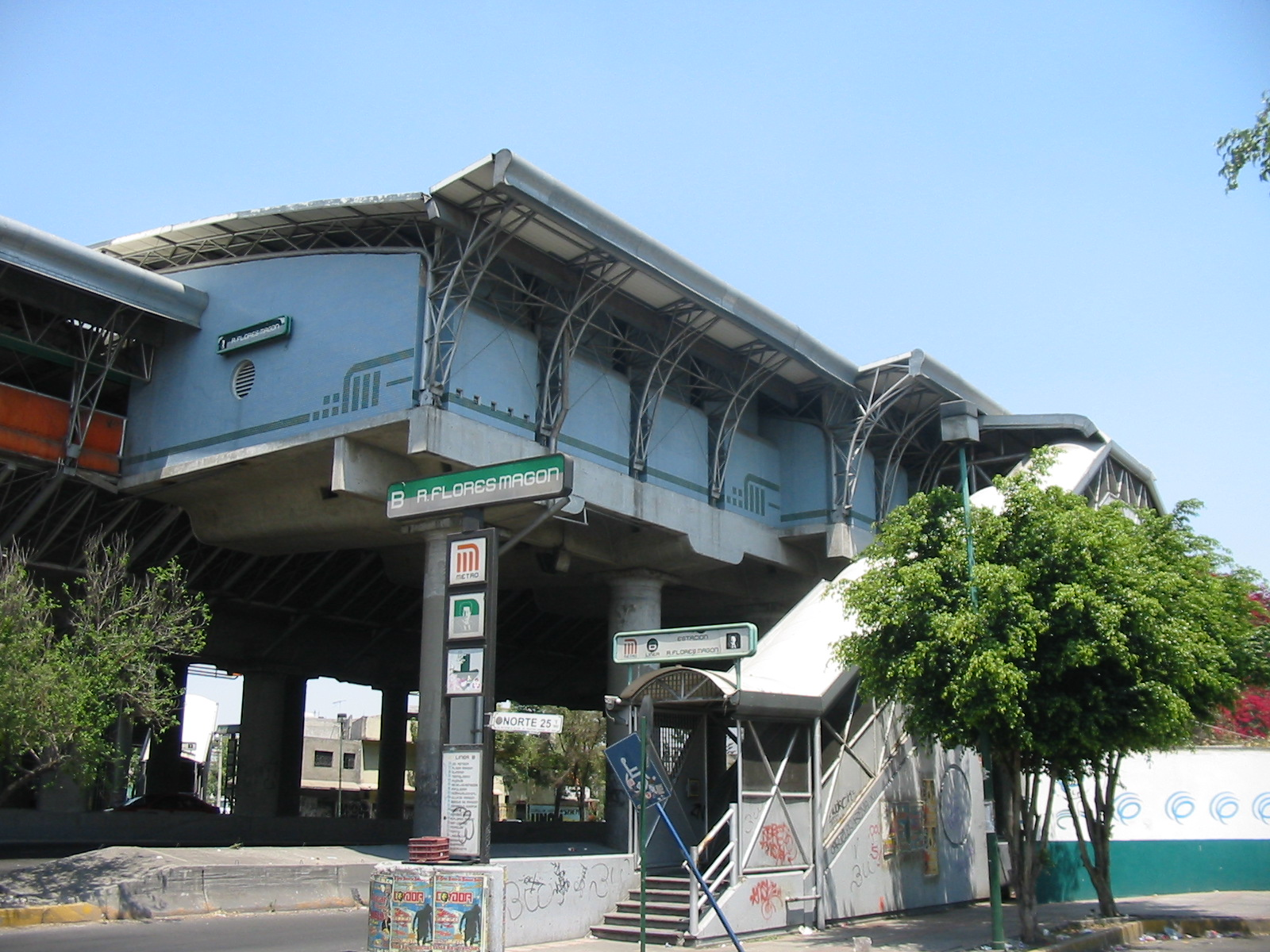 Entrance to Ricardo Flores Magón metro station (locally referred to as "Metro Ricardo Flores Magón"), of the Mexico City metro system